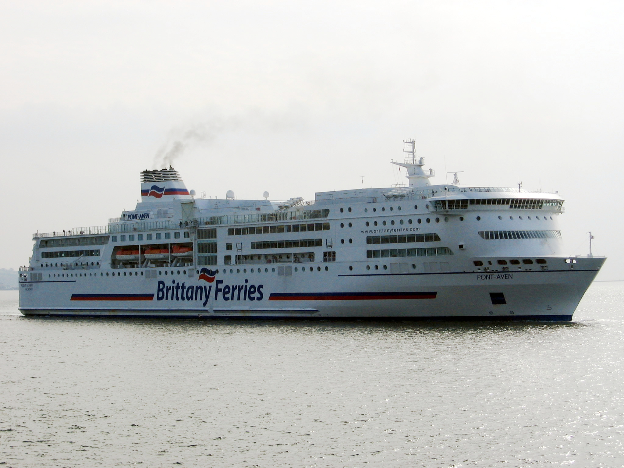 Pont Aven IMO Number: 9268708 MMSI Number: 228183600 Callsign: FNPN Length: 185 m Beam: 38 m